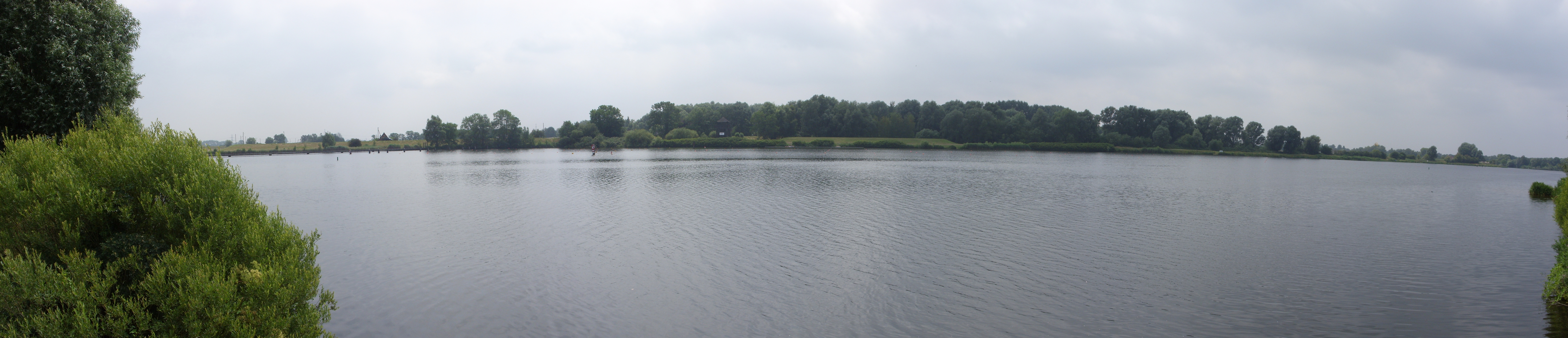 Panoramic view over the river Dove Elbe in Allermöhe, Hamburg This image was created with Hugin